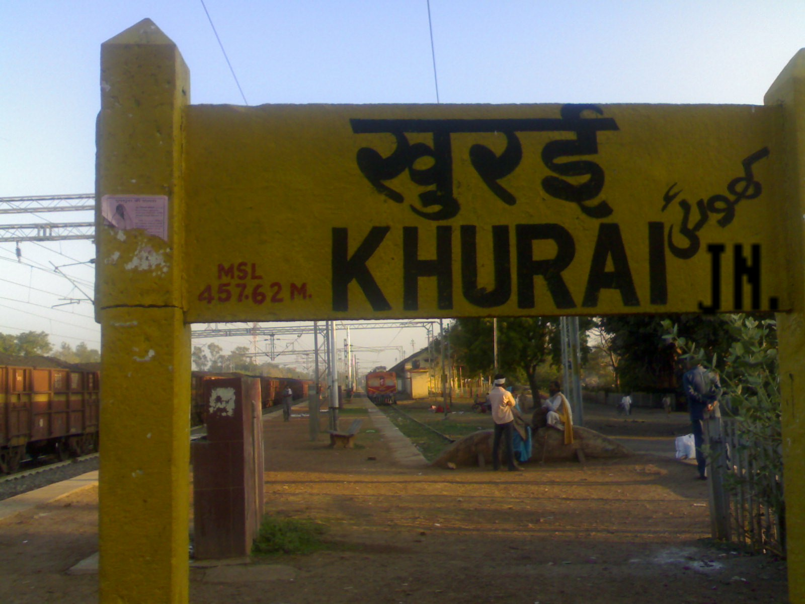 Khurai logo